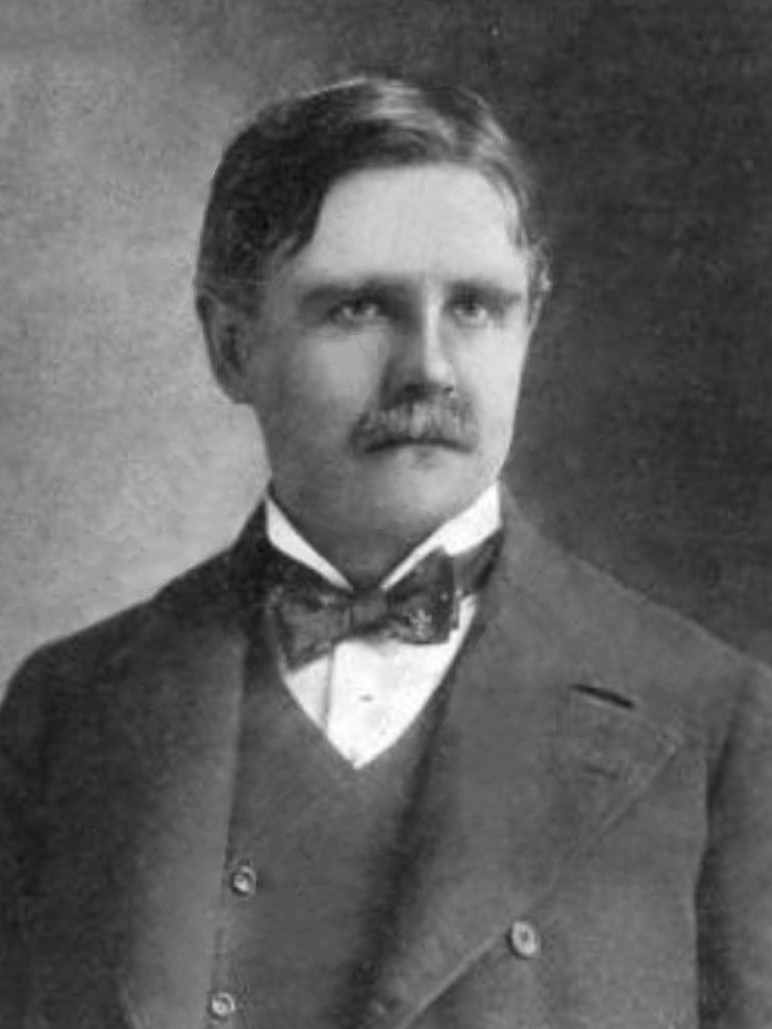 Abraham Lincoln Brick (1860-05-27 - 1908-04-07), U.S. Representative from Indiana (1899-1908).